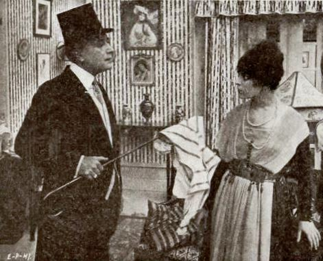 Still from the American mystery film Empty Pockets (1918) with Malcolm Williams (1870–1937) and Ketty Galanta, on page 18 of the November 24, 1917 Exhibitors Herald.